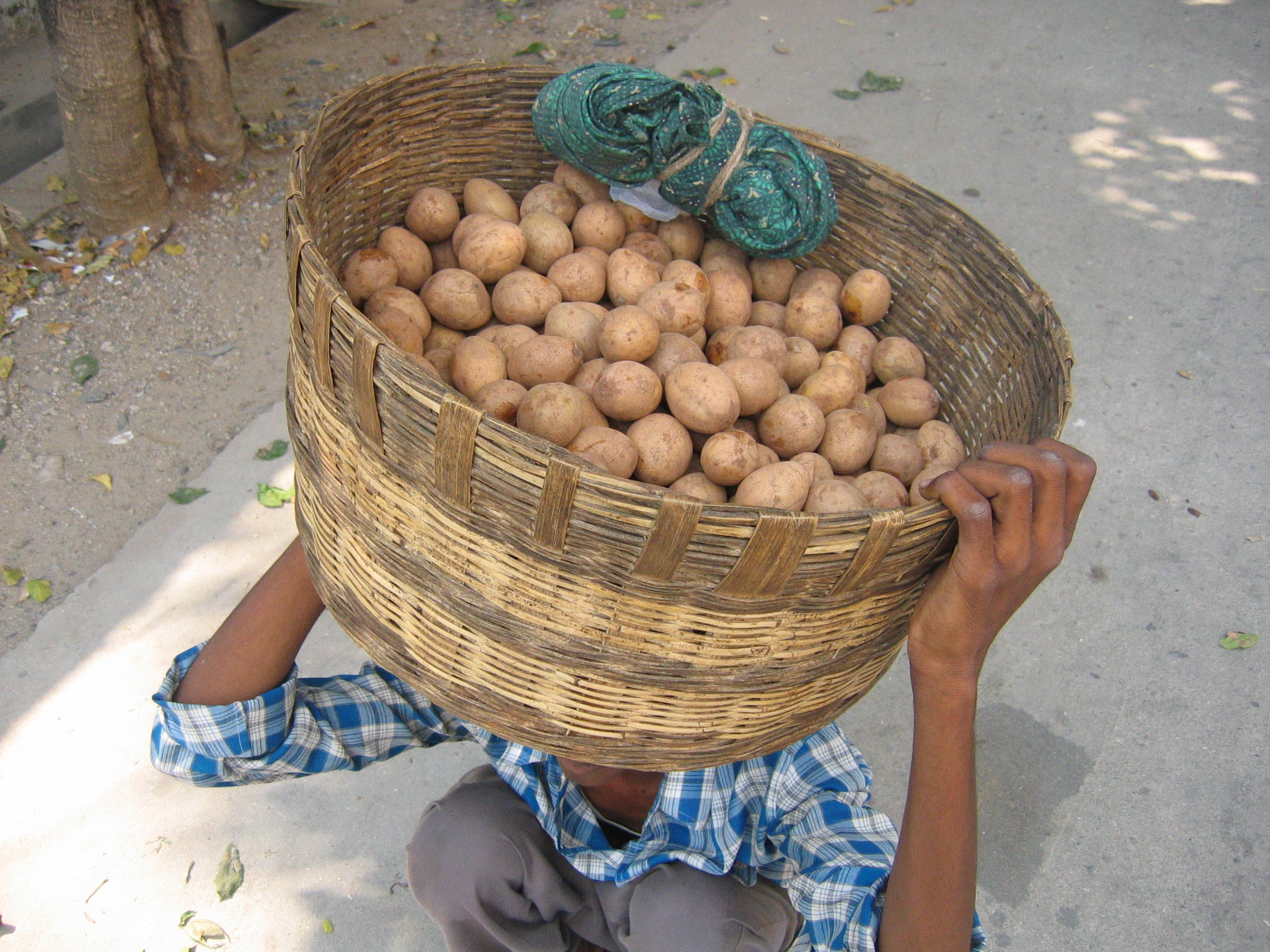 The oval shaped honey taste Sapota fruits (a unique Sapota of this region) are sold on a Street in Guntur City, India.